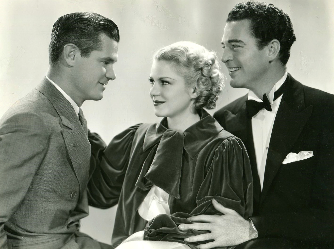 Still from the American drama film Song and Dance Man (1936). Pictured, from left: Paul Kelly, Claire Trevor, and Michael Whalen.